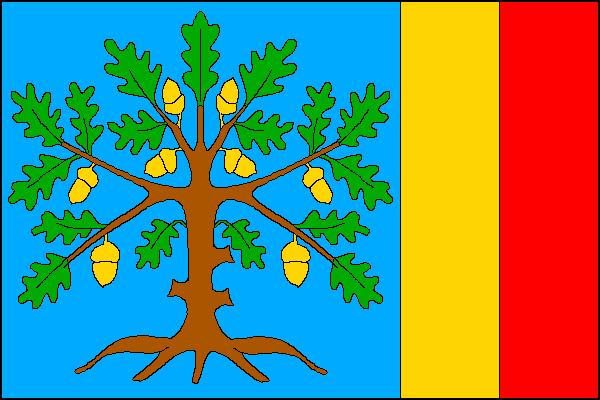 Municipal flag of Čelákovice, Czech Republic.